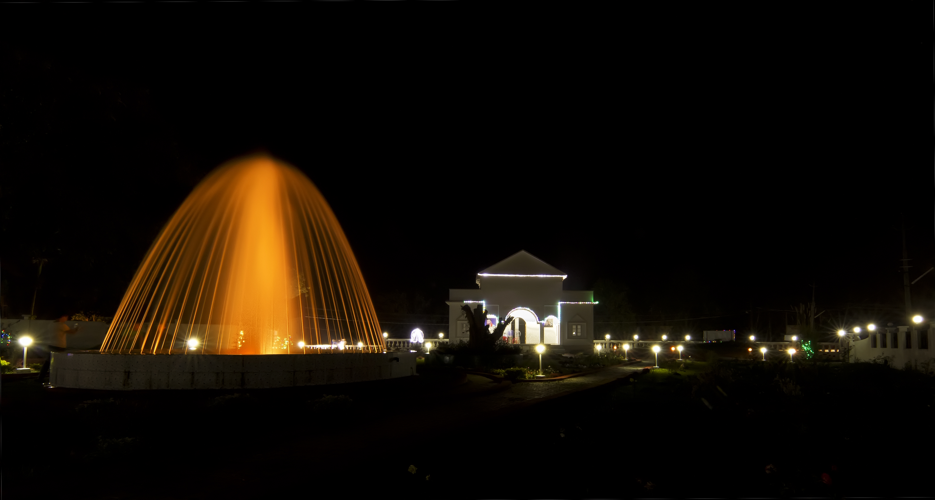 Margherita (IPA: ˌmɑːgəˈrɪtə) is a census town in Tinsukia district in the Indian state of Assam. The small sub-divisional town has scenic beauty though nothing like a tourism business.